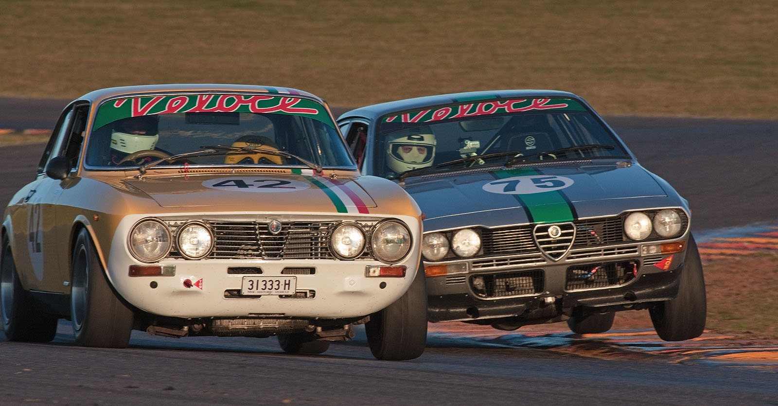 Festival of sports cars. Oran Park, Australia. June 2009 42 SF Baillie 1972 Alfa 105 GTV 75 U Muller 1977 A/Romeo GTV IMG_9240